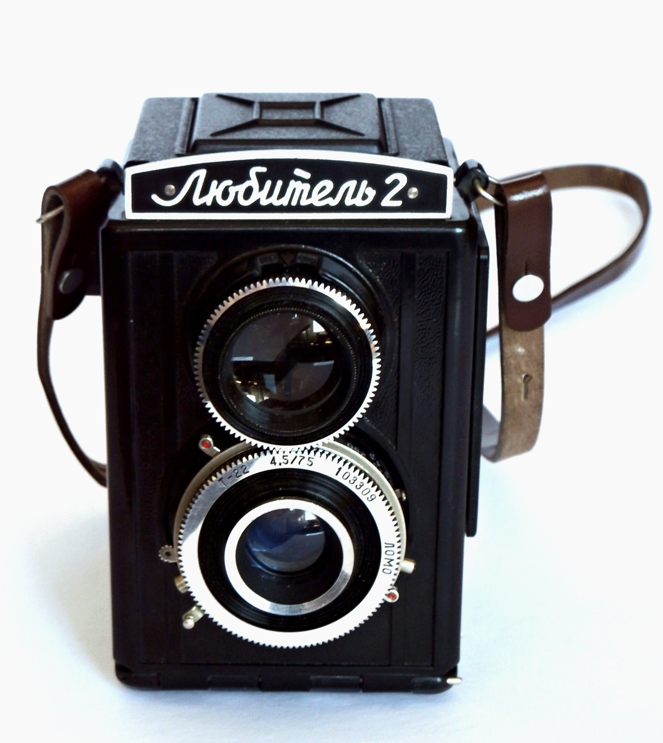 Lubitel 2 / Любитель 2 / Ljubitel 2